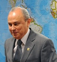 Wilson Roberto Trezza, director of Abin - Brazilian Intelligence Agency.